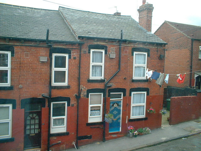 A typical day Aviary Place, Armley, Leeds. Clean washing drying on the line.